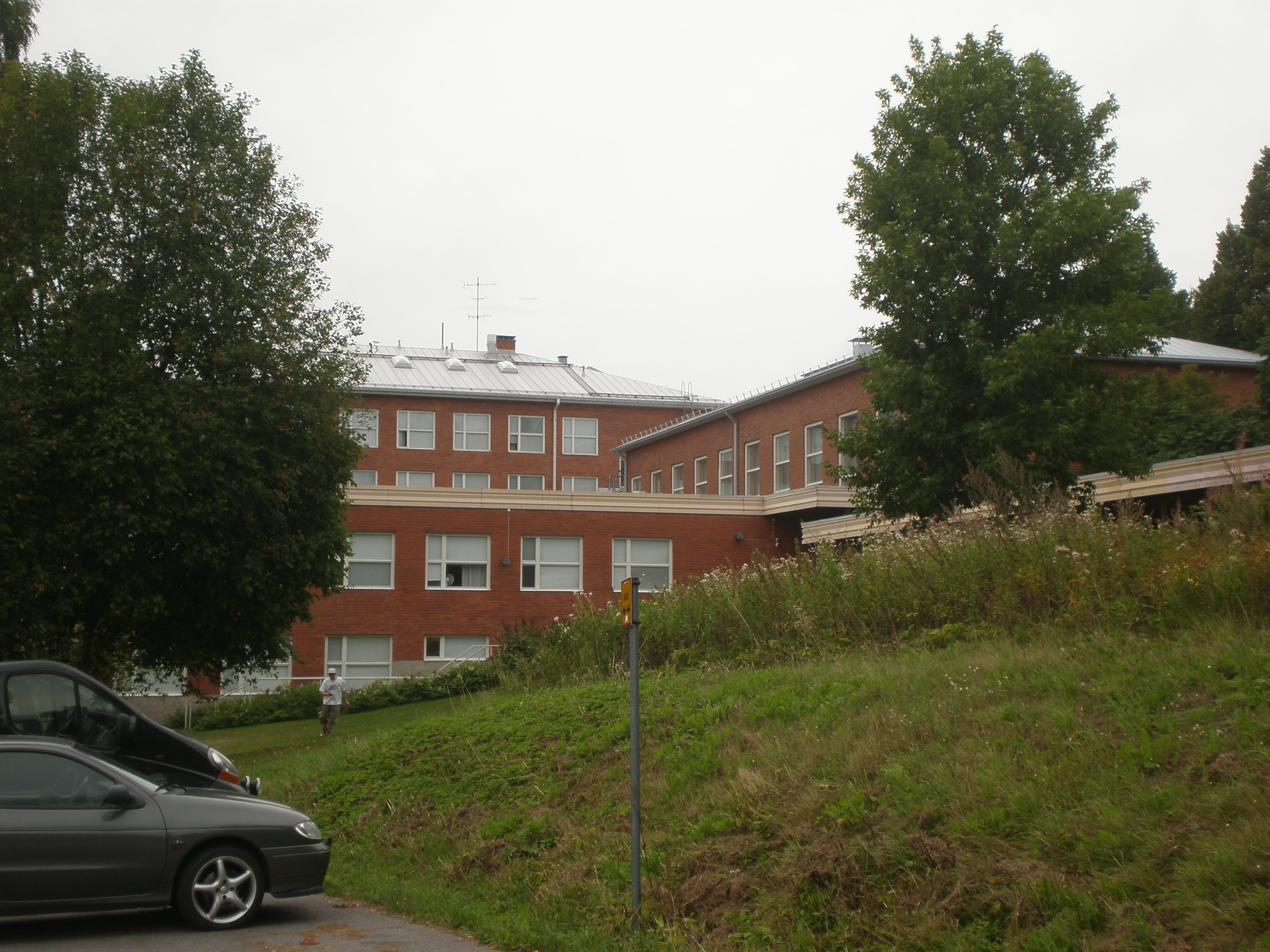 Kaarila school